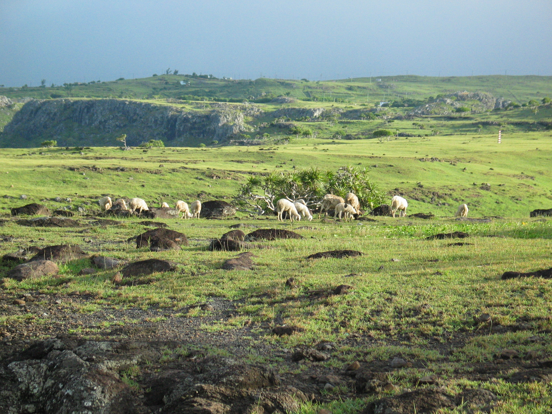 Rodrigues Island, Mauritius. Some goats are grazing.